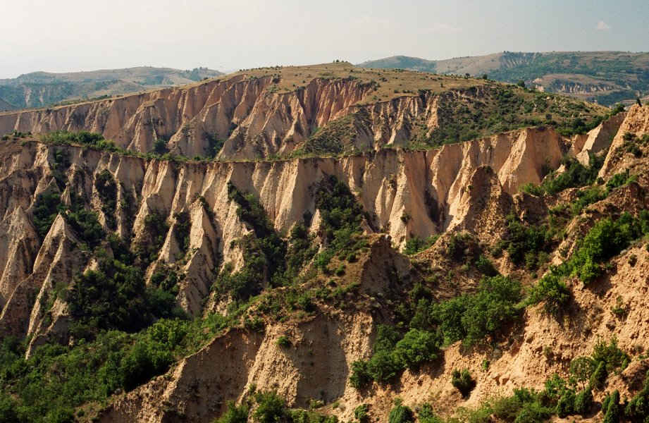 Eroded sandstone at Melnik, province of Blagoevgrad (aka: "Pirin Macedonia"), southwestern Bulgaria.